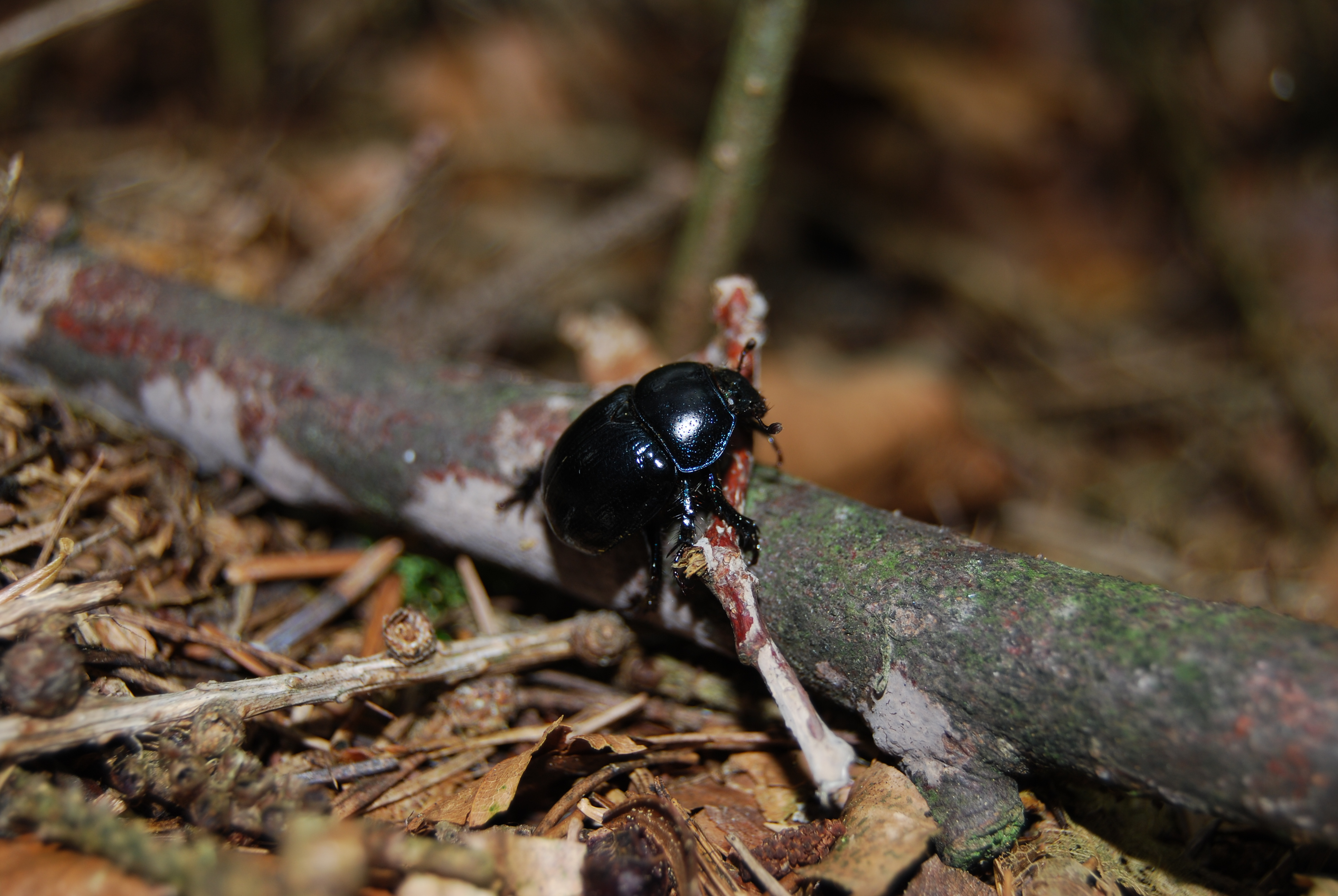 Anoplotrupes stercorosus. Czech Republic